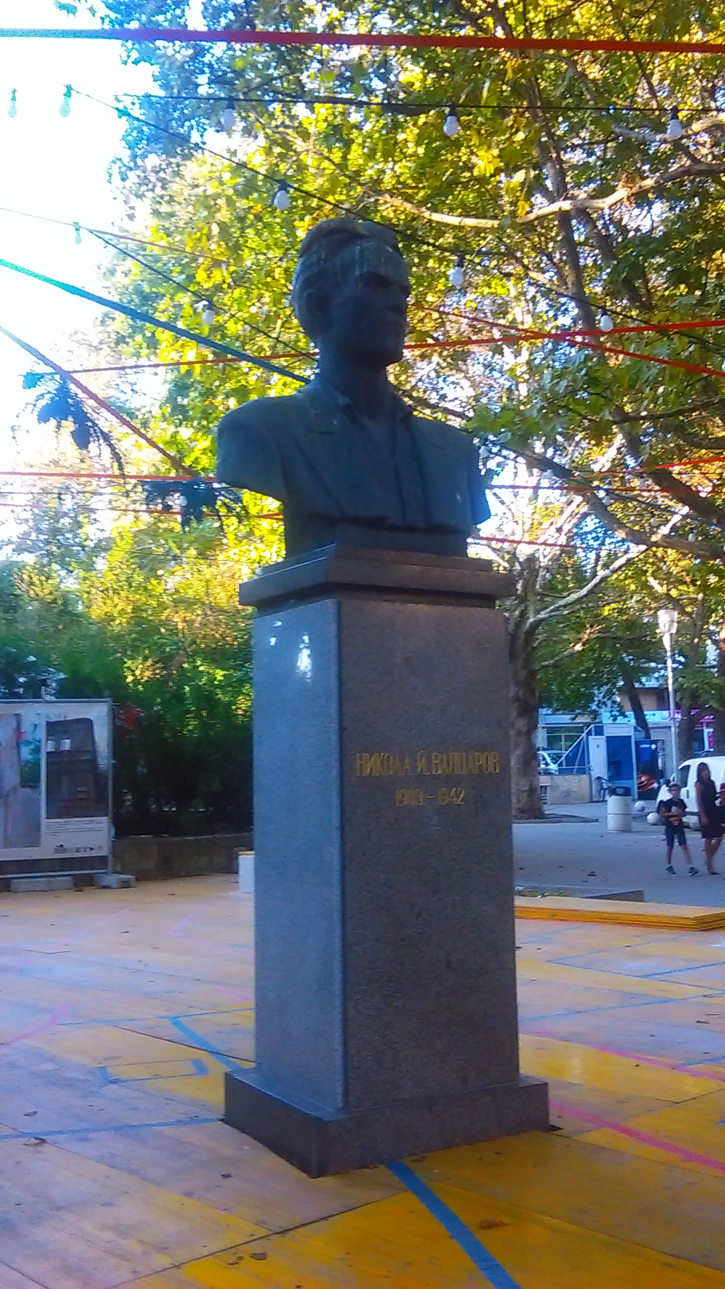 Nikola Vaptsarov's monument in Varna